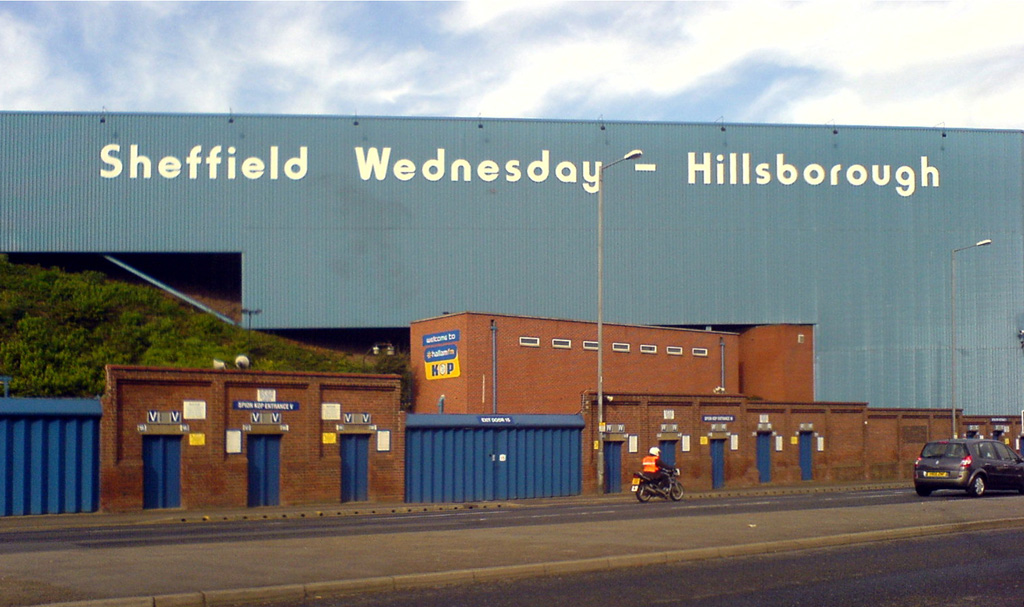 Outside of the Kop at Hillsborough Stadium, Sheffield